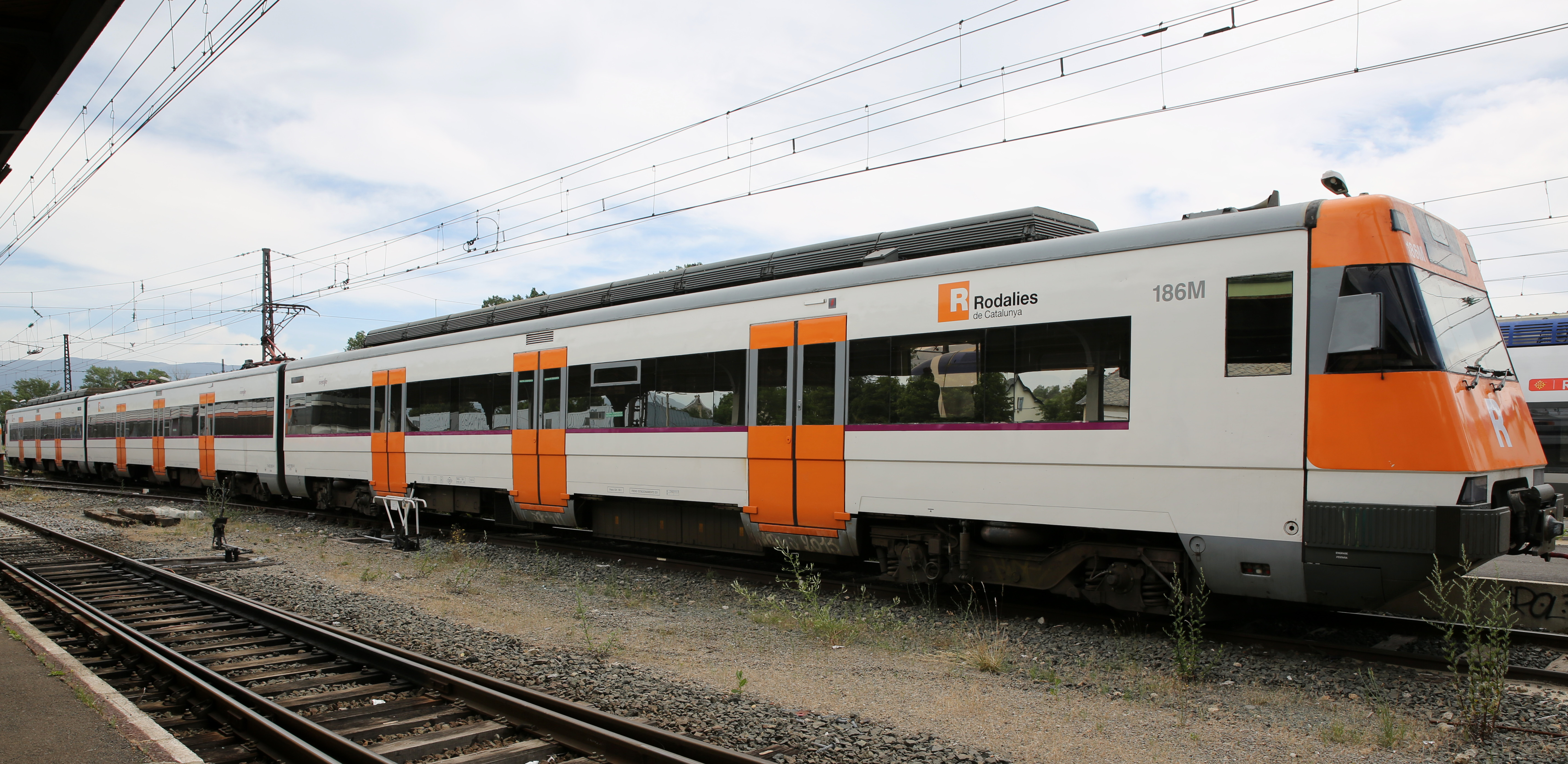 Renfe 447